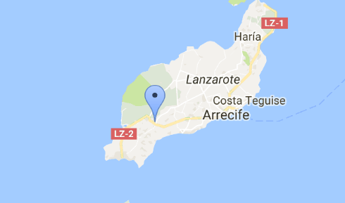 uga, in lanzarote